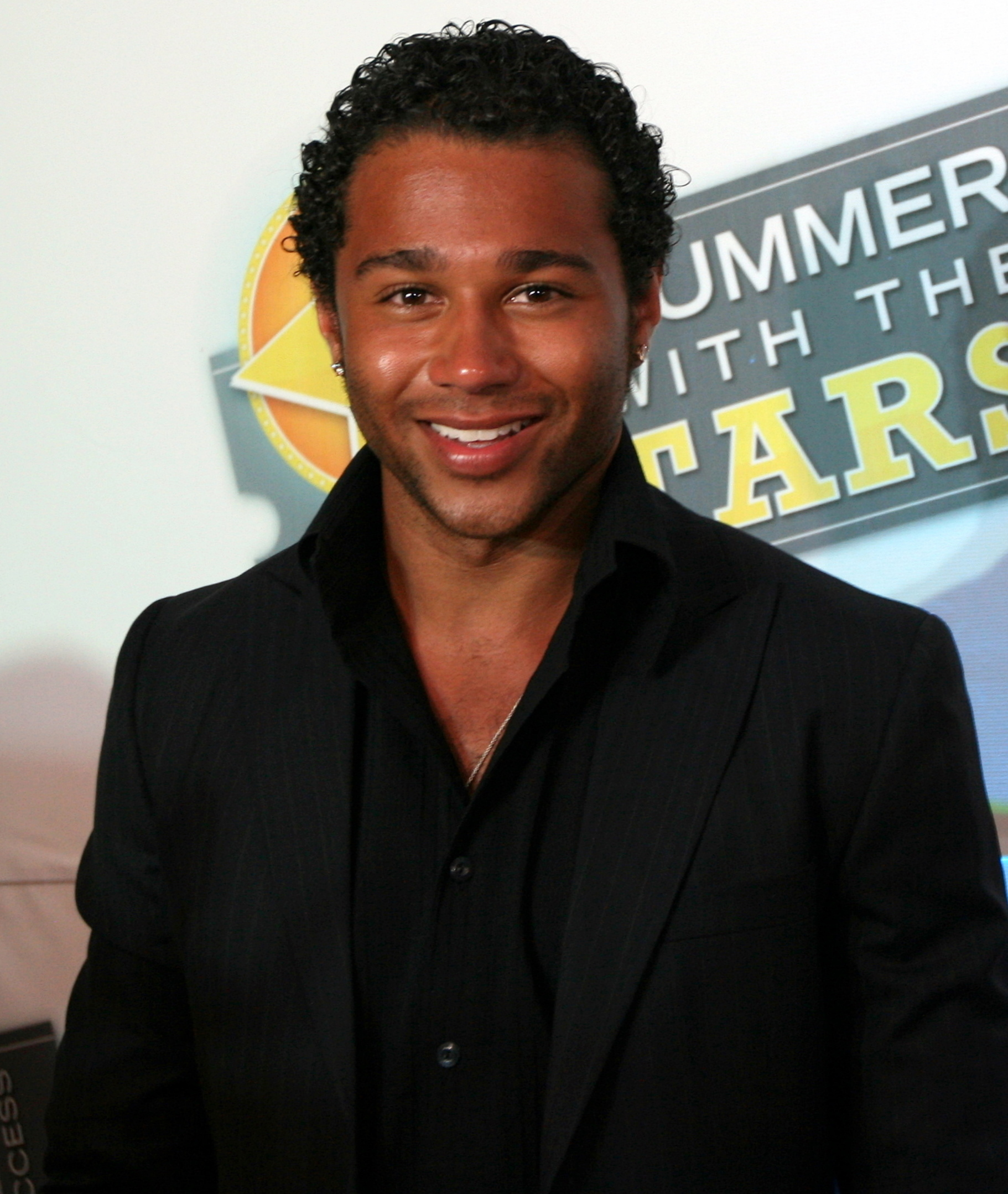 Corbin Bleu at the Summer with the Stars, Red Carpet in 2011.